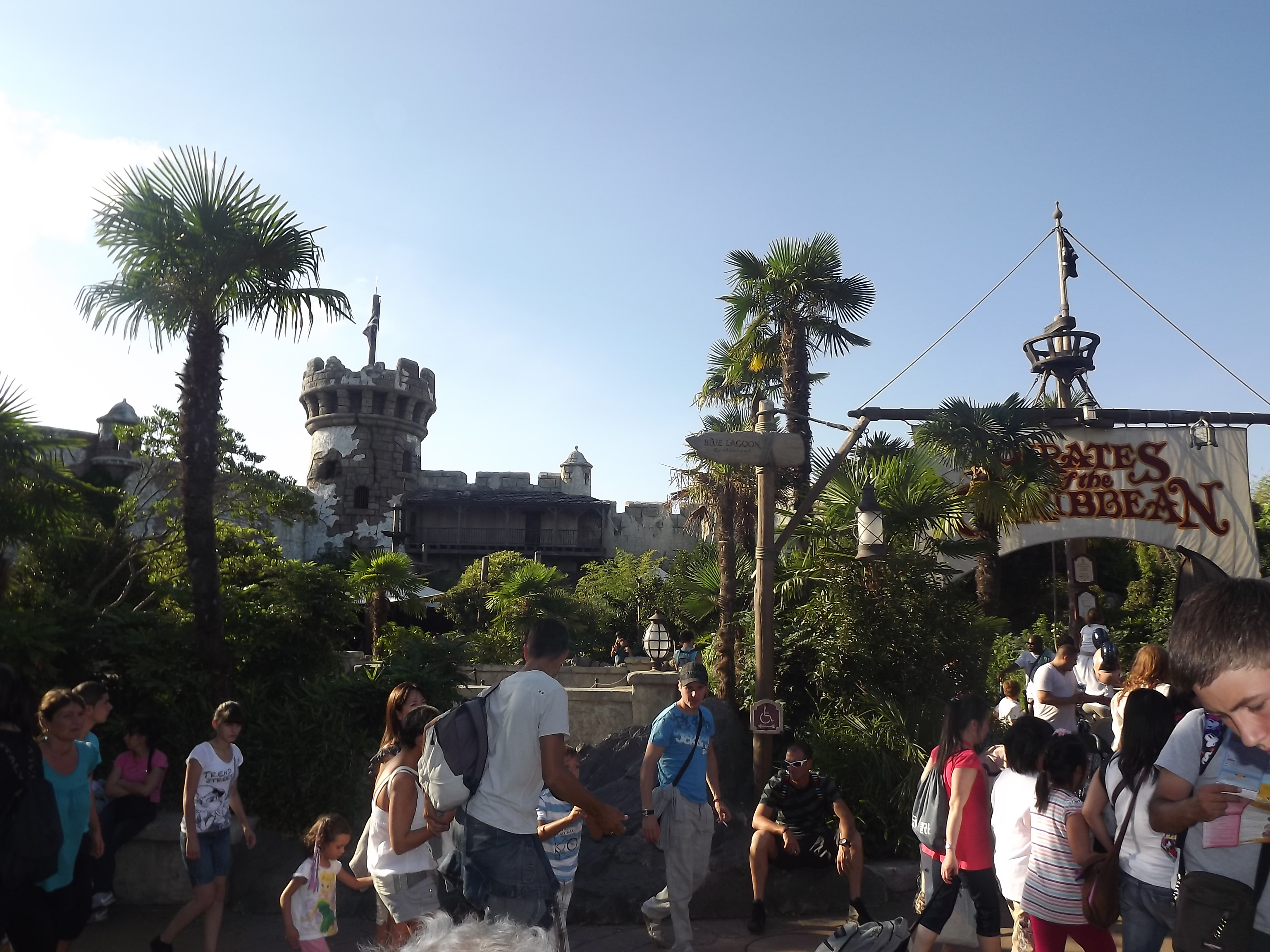 The Facade of Pirates of the Caribbean at Disneyland Resort Paris, August 2011.